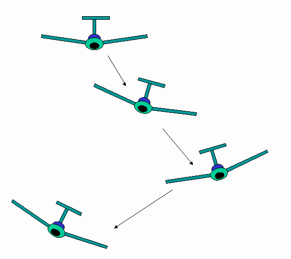 Dutch Roll of an airplane